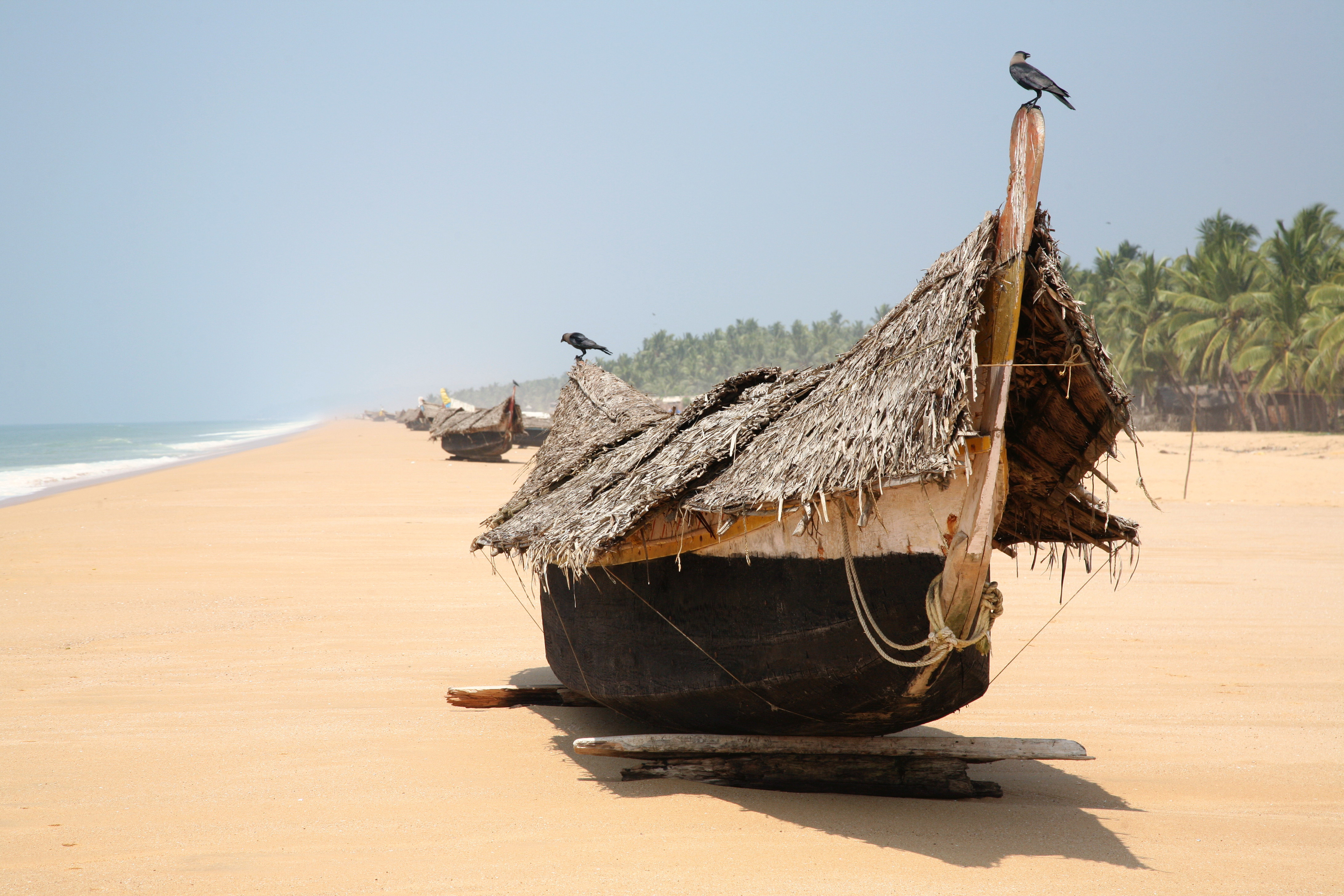 Boats on the beach at Poovar in Kerala, India.